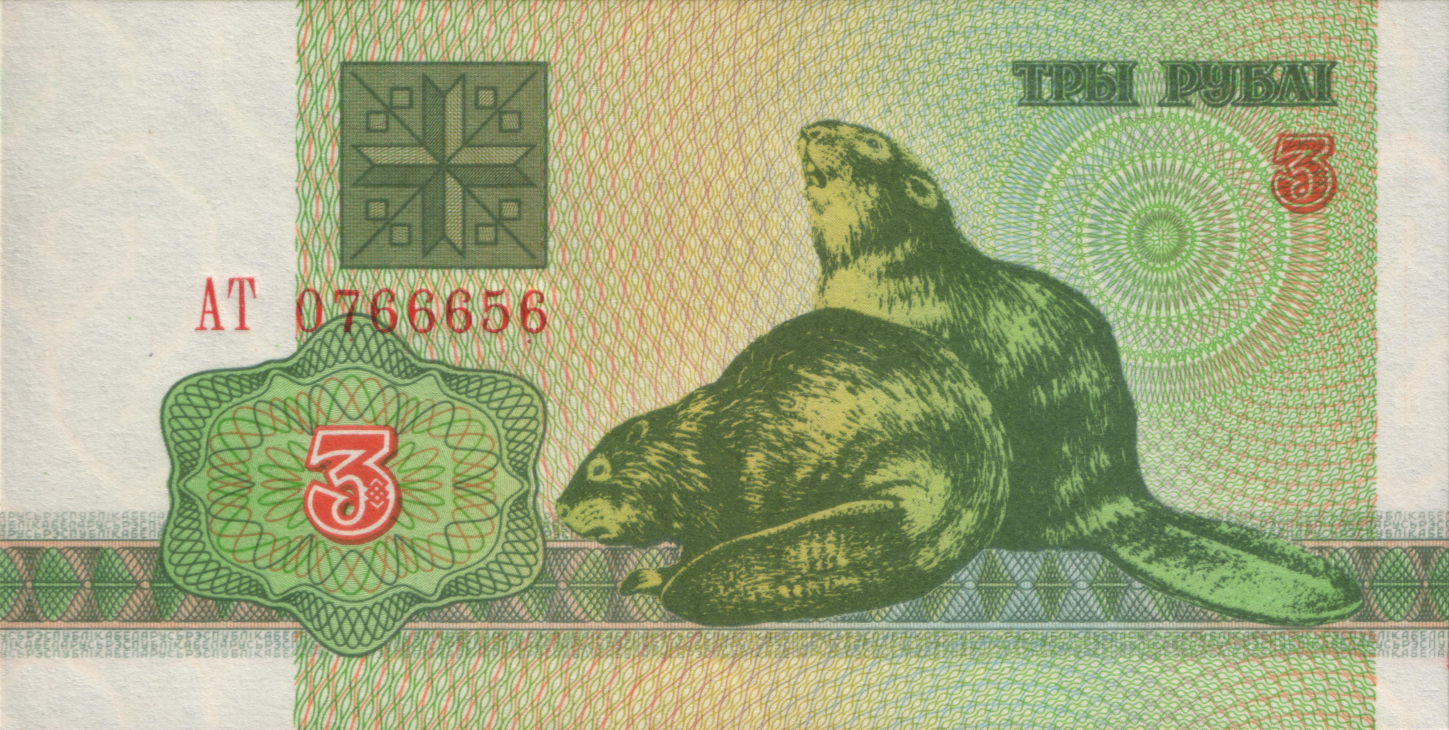 3 roubles of Belarus (1992)